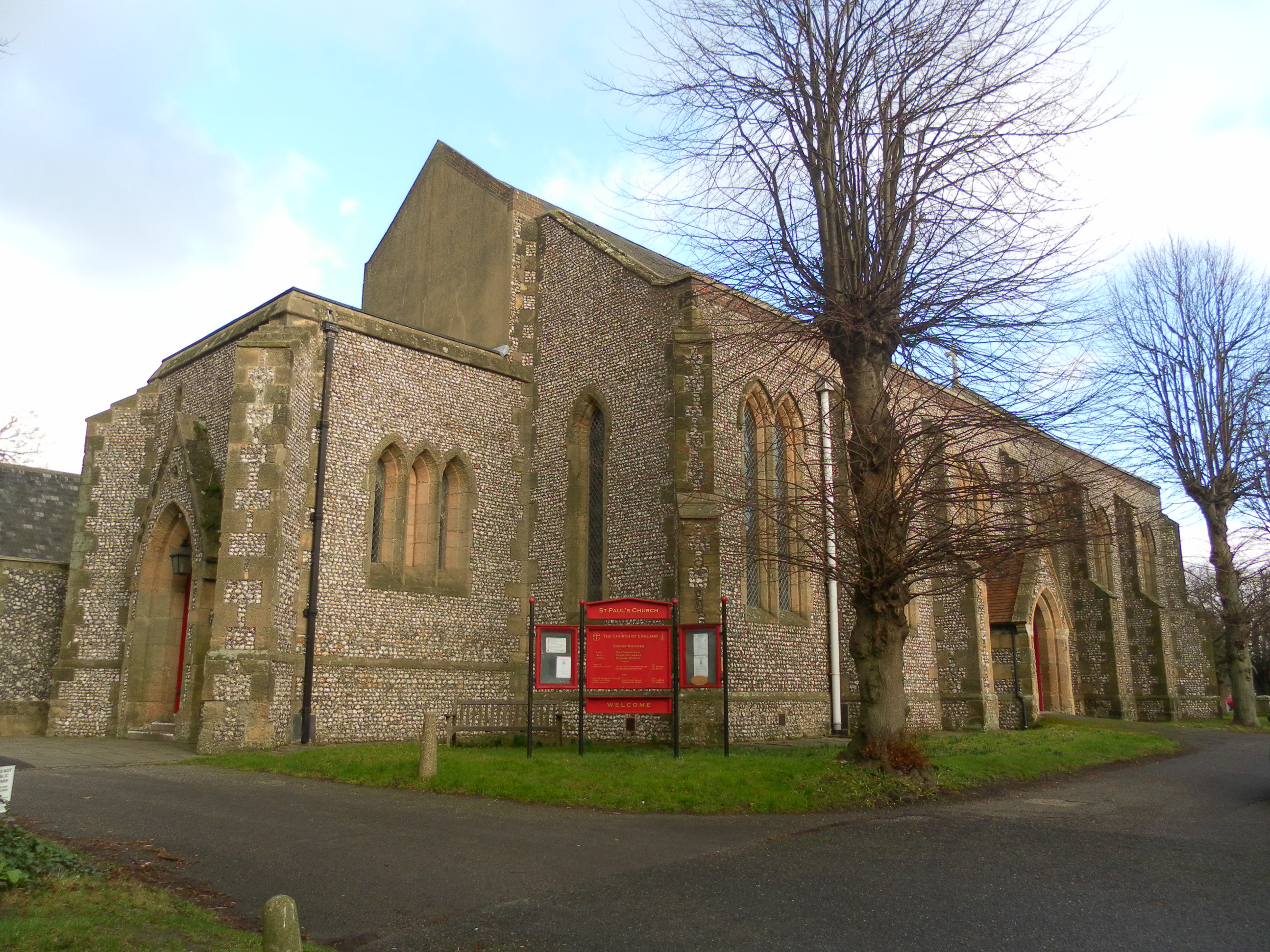 St Paul's parish church, Chichester, West Sussex, built by Joseph Butler in 1836. Seen from the southwest. The west porch is the base of a former tower, which was demolished but for the ground stage in 1951.